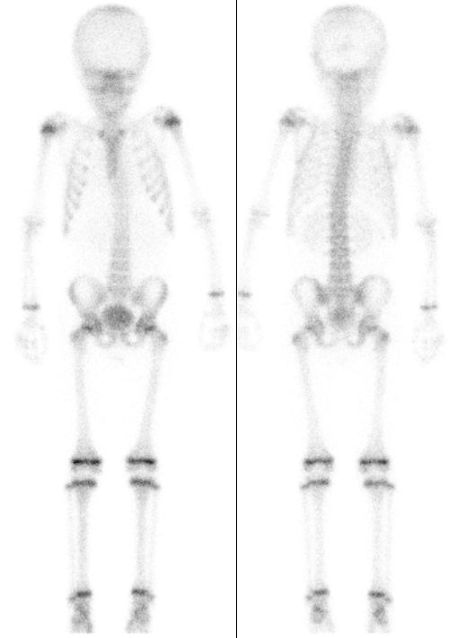 Bonescan of a 7 year old child.